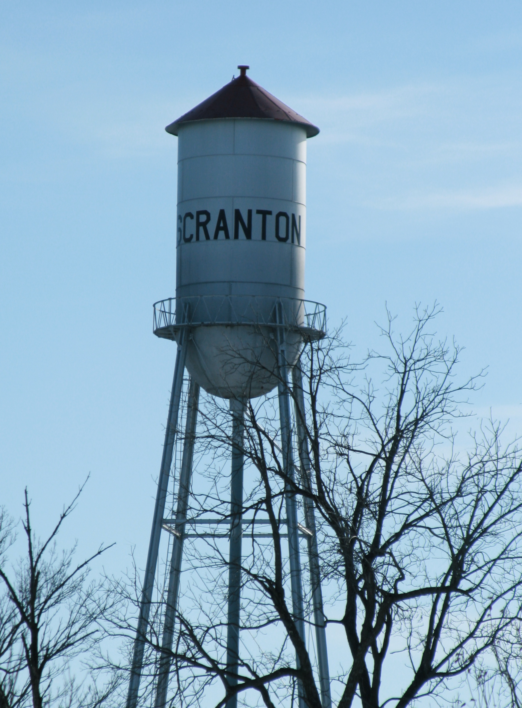 Water tower located in Scranton, Iowa